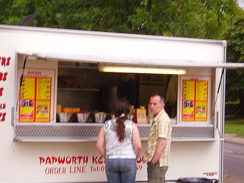 Papworth Kebab Van. I took this August 2006.